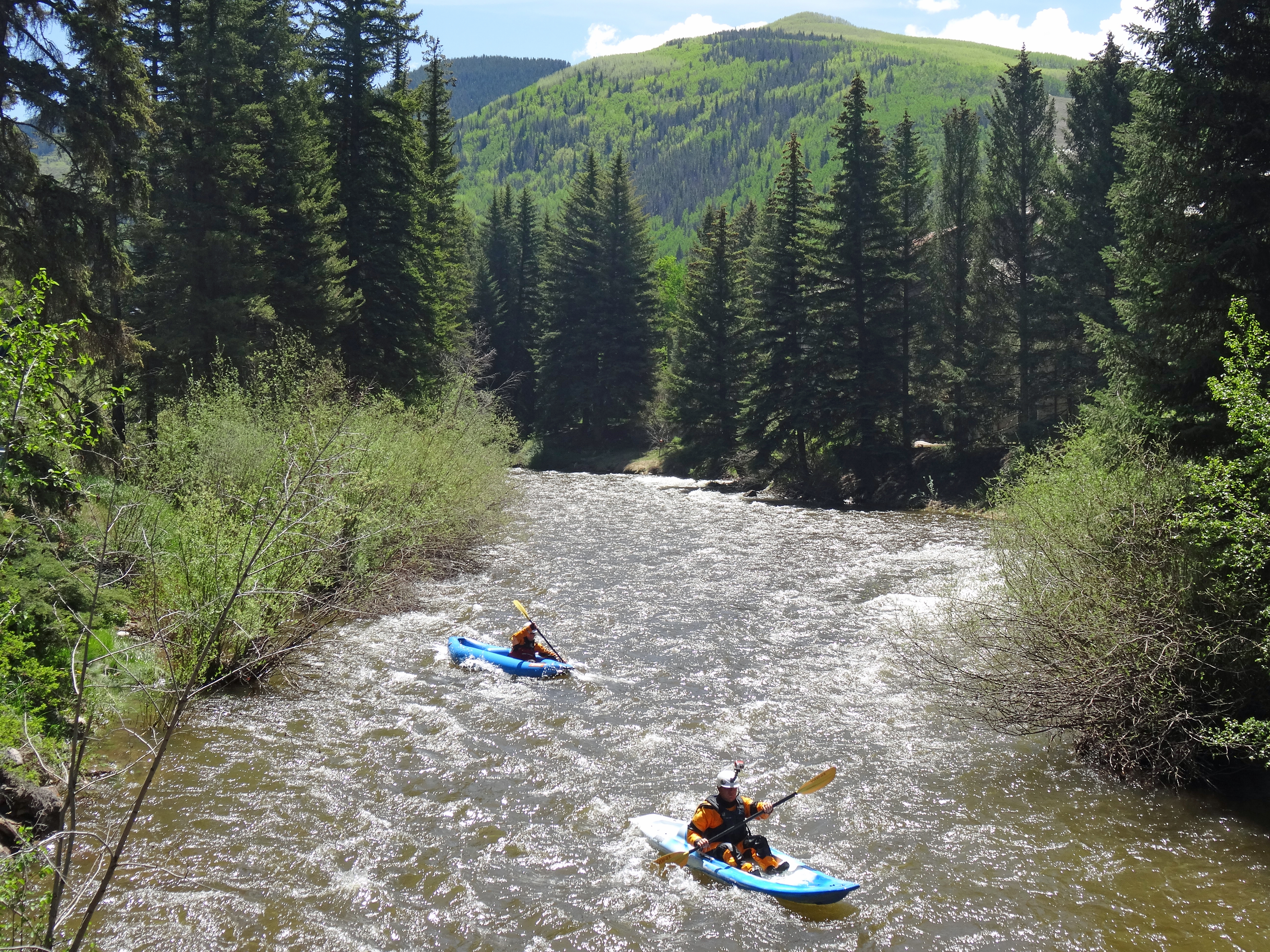 Gore Creek. The view is in Vail, Colorado, looking upstream. Some kayakers are visible in the creek. The picture was taken in early June, 2014, and at that time the creek was swollen with spring runoff from the melting snow.